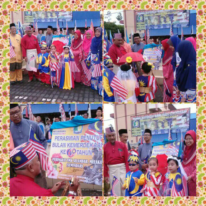 MAJLIS PENUTUPAN HARI KEMERDEKAAN